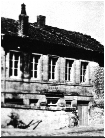 Picture of the school of Martincourt-sur-Meuse in the beginning of the 20th century.